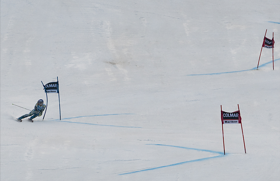 Zlata lisica 2011